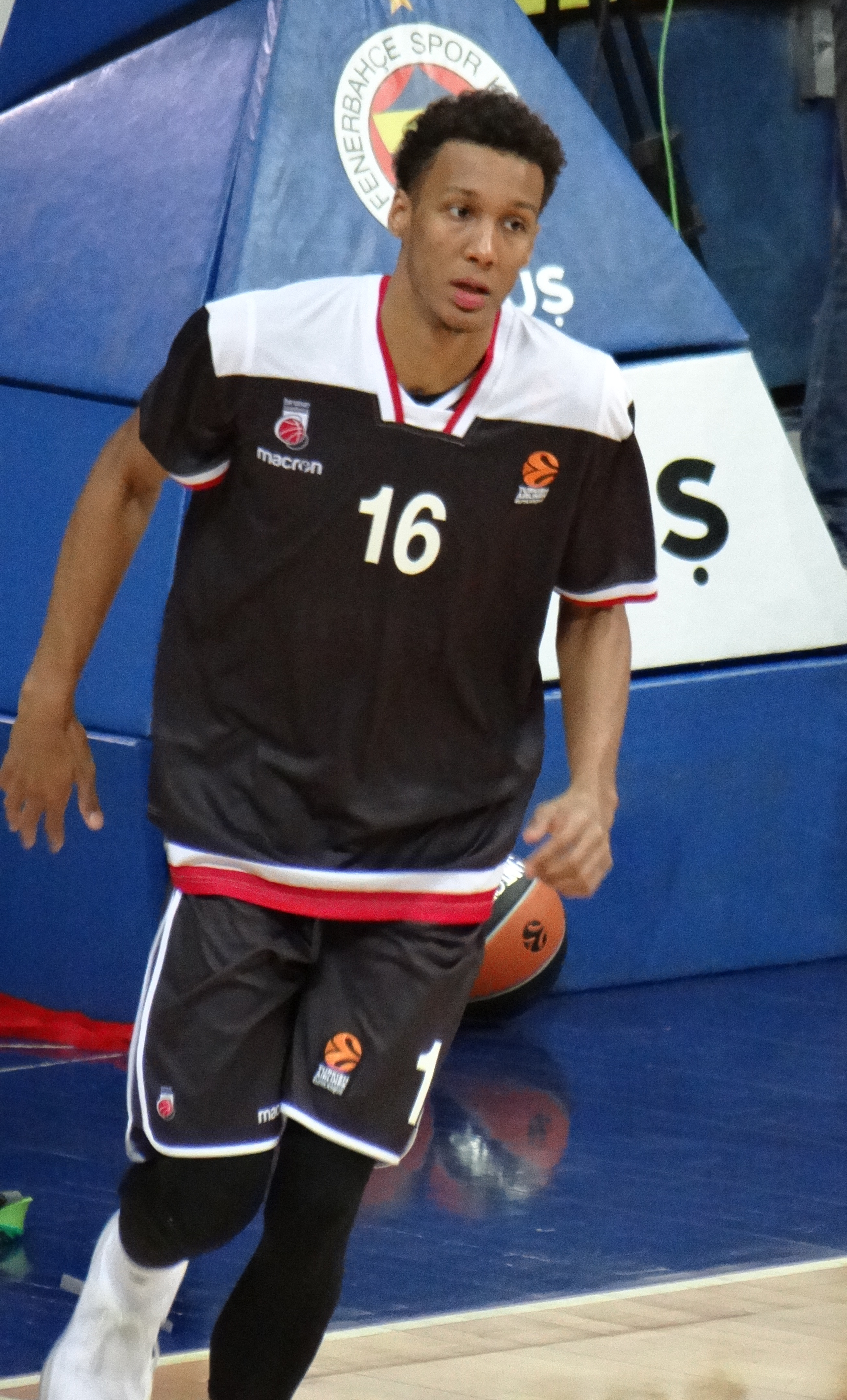 Louis Olinde 16 Brose Bamberg EuroLeague 20180209